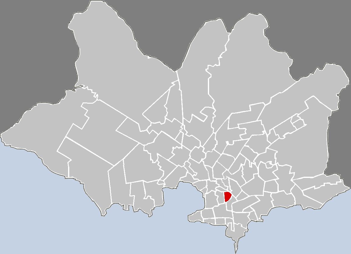 Map highlighting the given barrio in Montevideo.